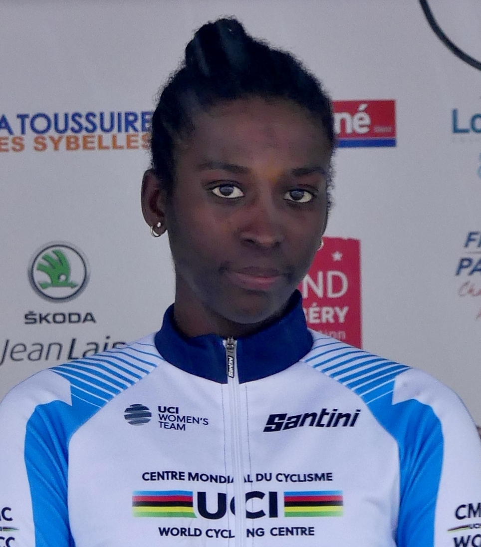 Sight of the Trinbagonian cyclist Teniel Campbell, who finished second on the podium of the 2019 Grand Prix de Chambéry race, in Savoie, France.